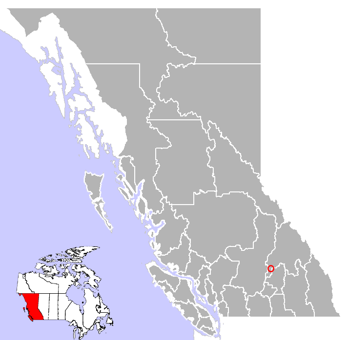 Salmon Arm, British Columbia location.